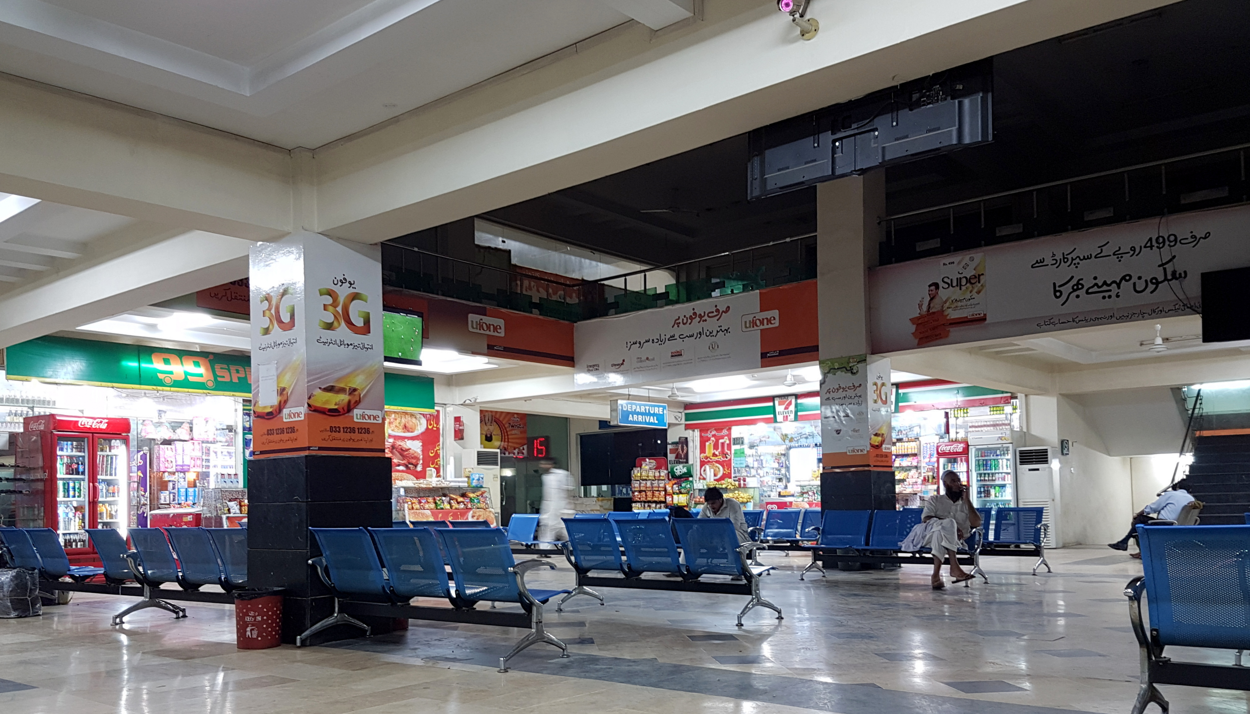 Daewoo bus terminal, Peshawar.